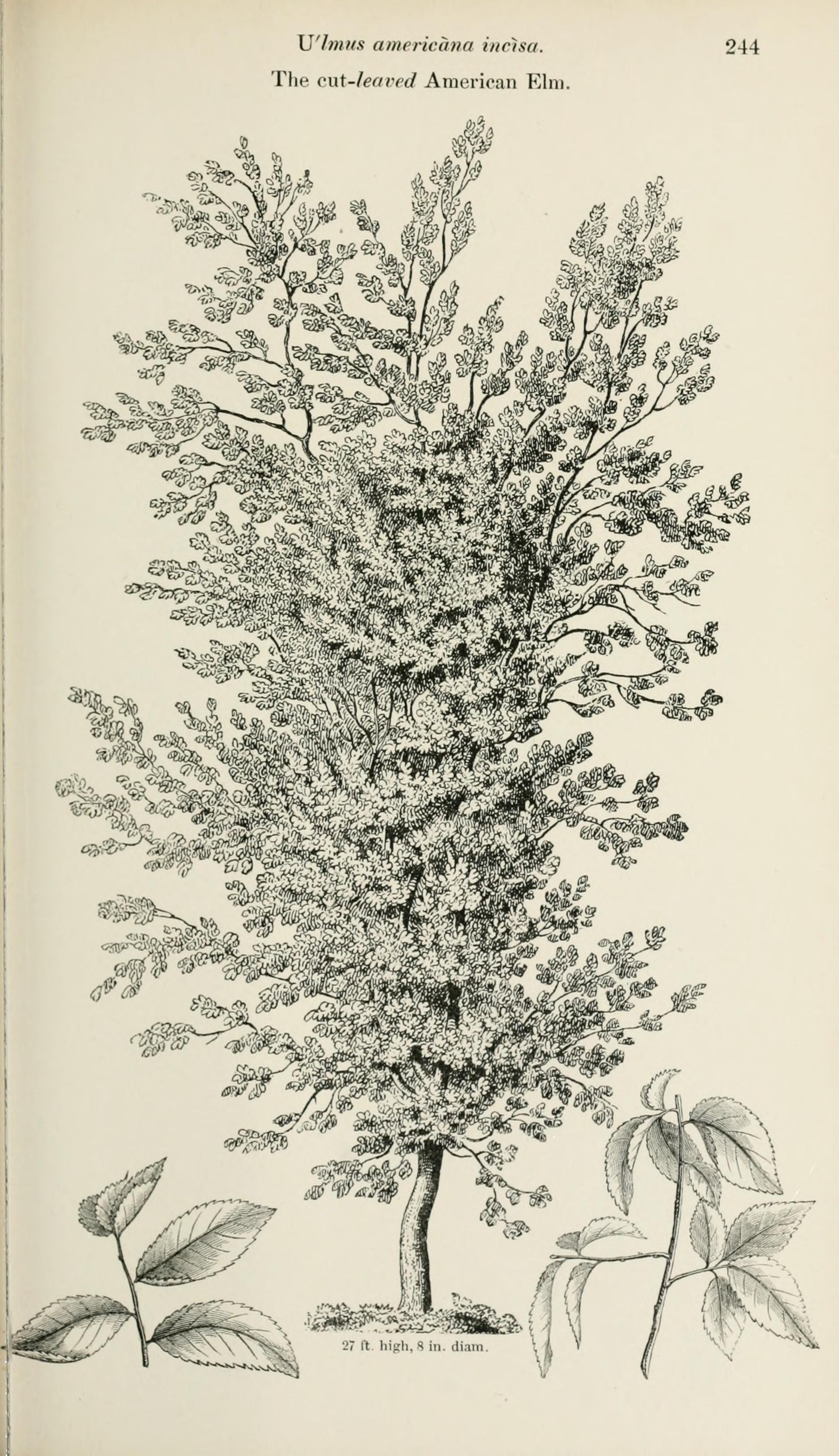 Ulmus americana incisa. The cut-leaved American Elm. p.244